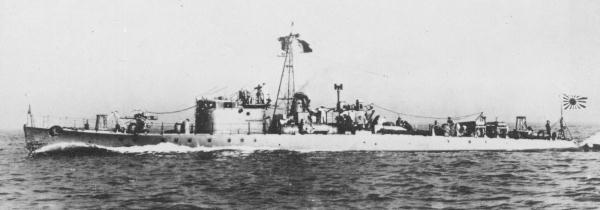 Japanese Submarine Chaser No.53(No.53-class) in trial at Osaka Bay.